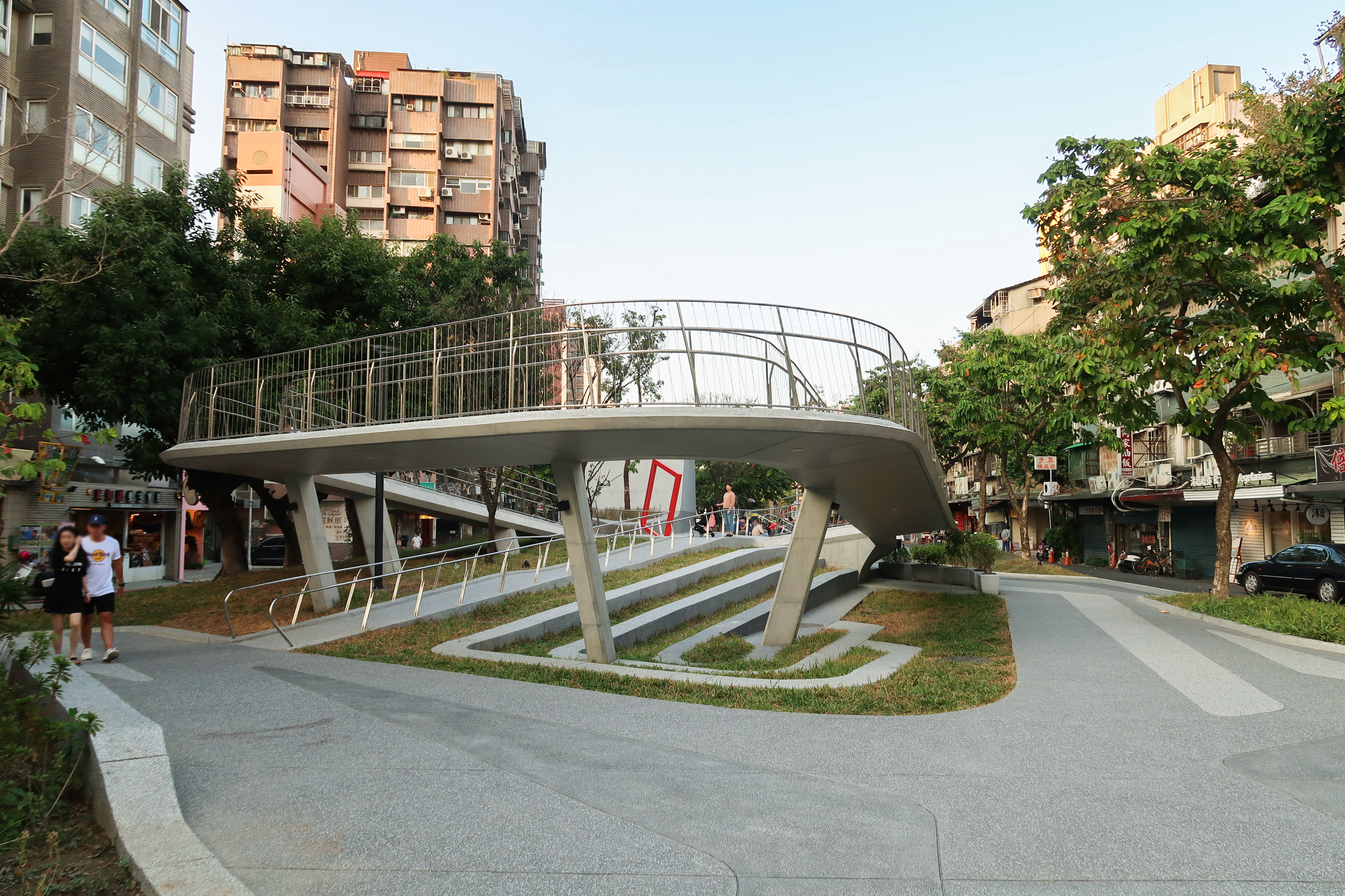 Zhongshan Shuanglian Linear Park Constellation Play Area